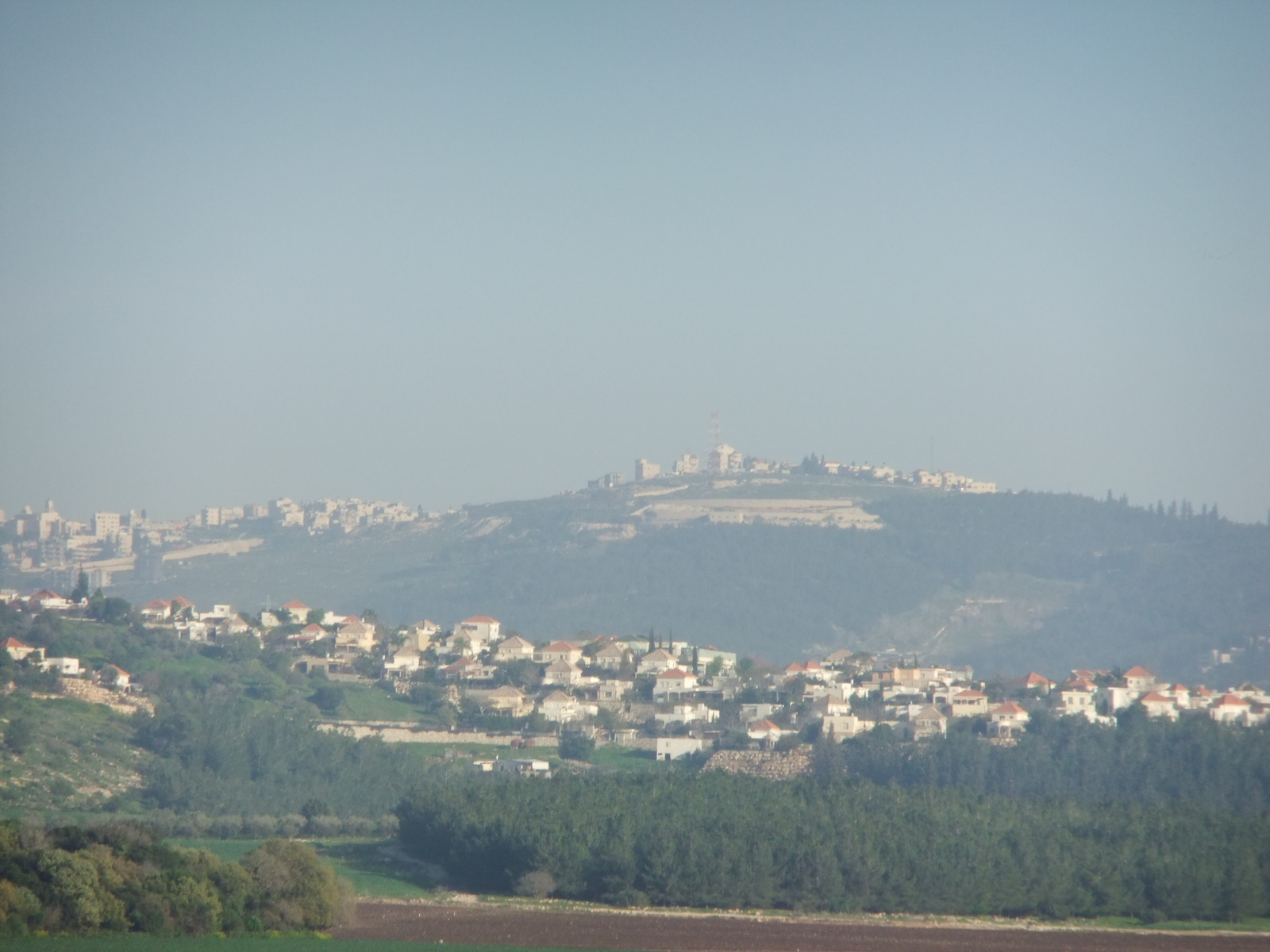 Hasolelim from road 77. Behind are the buildings of Nazareth